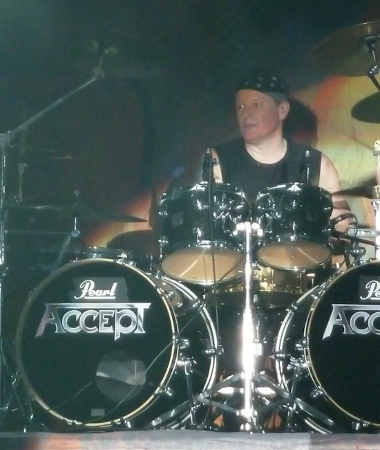 Stefan Schwarzmann, drummer of the German heavy metal band Accept performing at Kavarna Rock Fest 2013, Bulgaria.